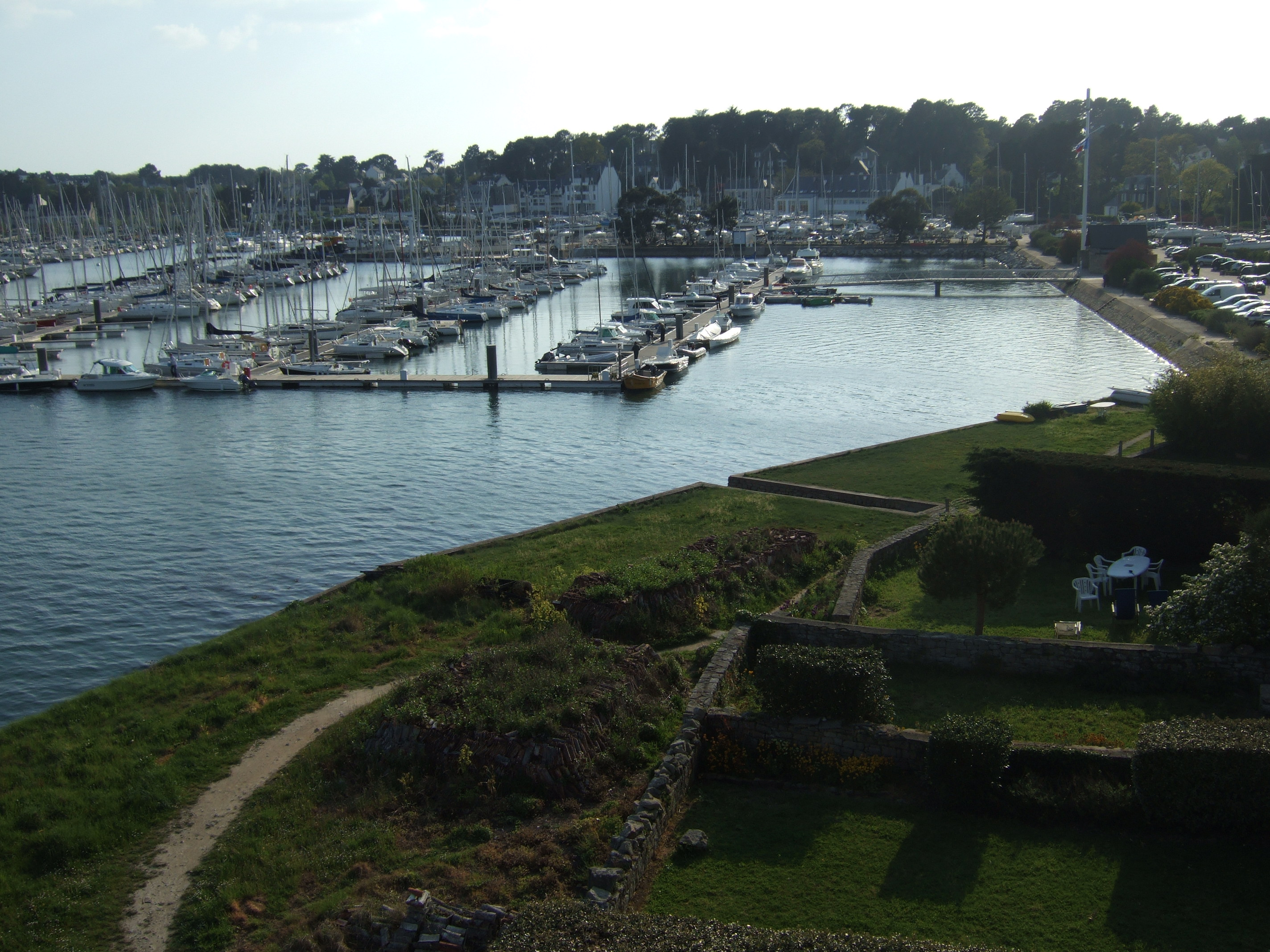 View of the port of the French commune La Trinité-sur-mer, in Brittany (next to Carnac). Photo taken from the bridge "Pont de Kerisper", looking southwest. Taken by me.